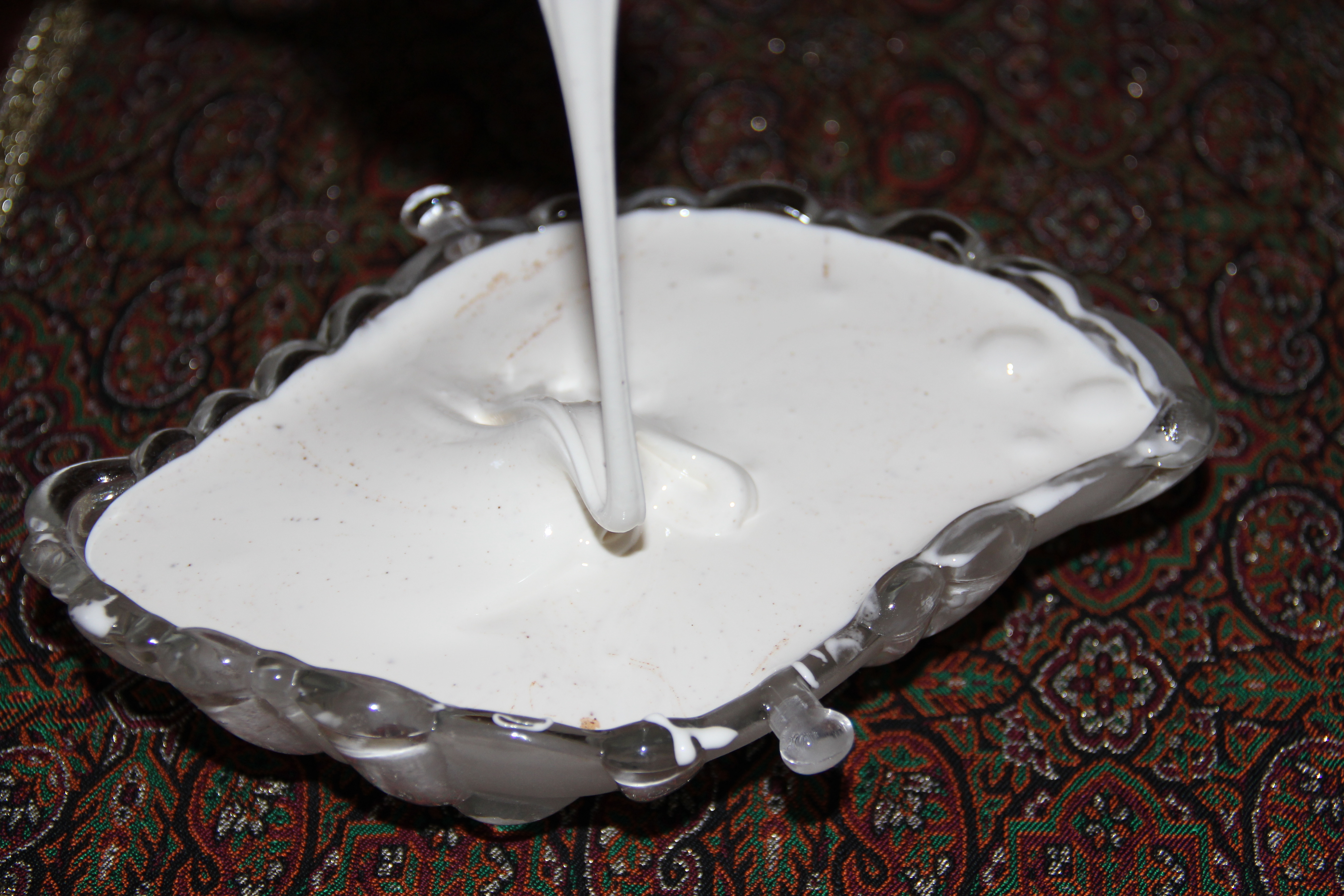 Angosht pich